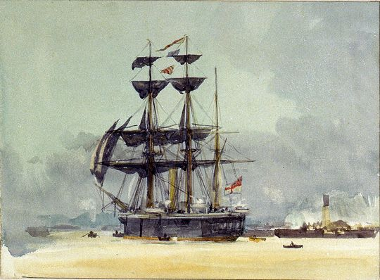 Watercolour of HMS Calypso in 1897